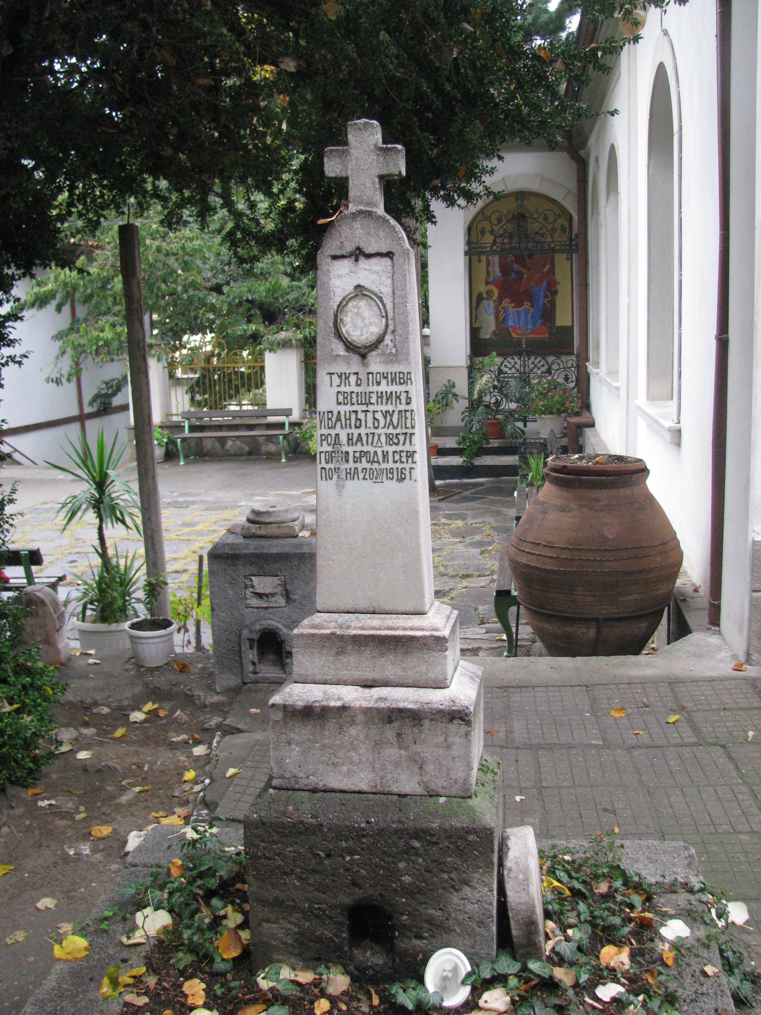 Grave of bulgarian priest Ivan Buhlev